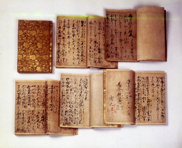 Notes on Guidance Toward Birth in the West (西方指南抄, saihō shinanshō) or "A Teaching to the Western Land" or "Collections Showing the Way to the West". Compilation of Hōnen's (teacher of Shinran) words in the form of writings, letters and records of words or events. Six books bound by fukuro-toji[nb 2], 28.2 × 18.2 cm (11.1 × 7.2 in). Located at Senju-ji, Tsu, Mie.